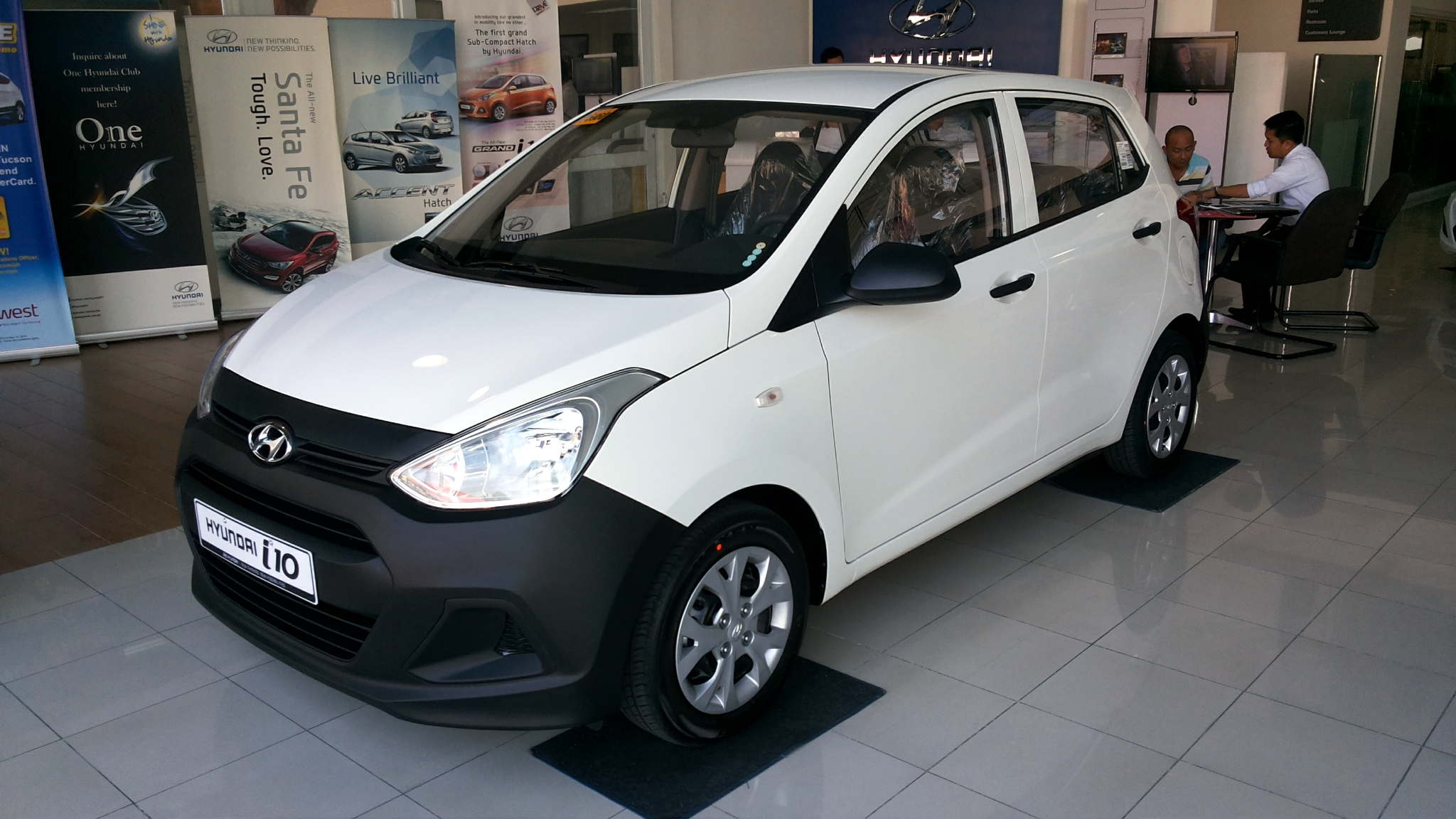 2014 Hyundai Grand i10 1.0 E. Taken at Hyundai Manila Bay, Pasay City, Philippines.